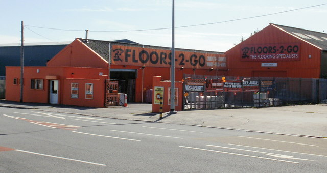 Floors-2-Go, Senlan Industrial Estate, Cardiff Distinctively coloured premises of the flooring specialists, located on Rhymney River Bridge Road, near to the junction with Newport Road.